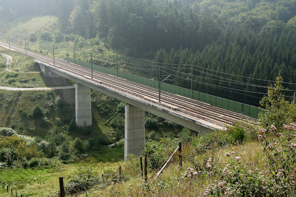 The Eisenbach valley bridge on the Cologne-Frankfurt high-speed railway line